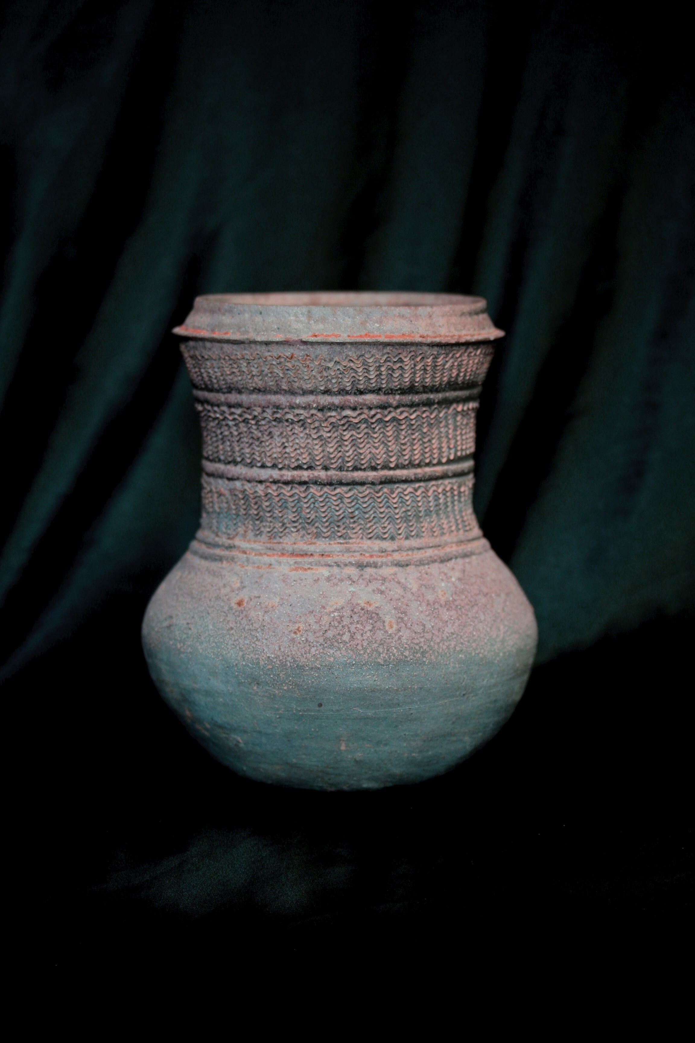 Silla Three Kingdoms Period Jar, Private Collection. free use Category:Silla Category:Korean pottery